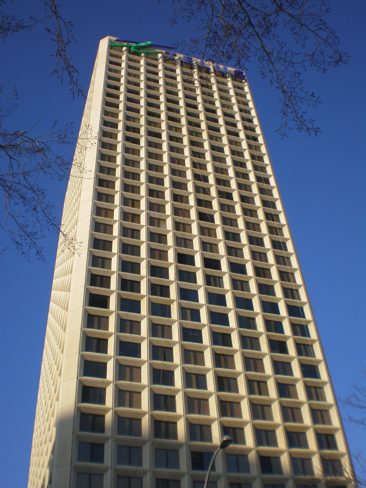 Telus Plaza office building in Edmonton, Canada.